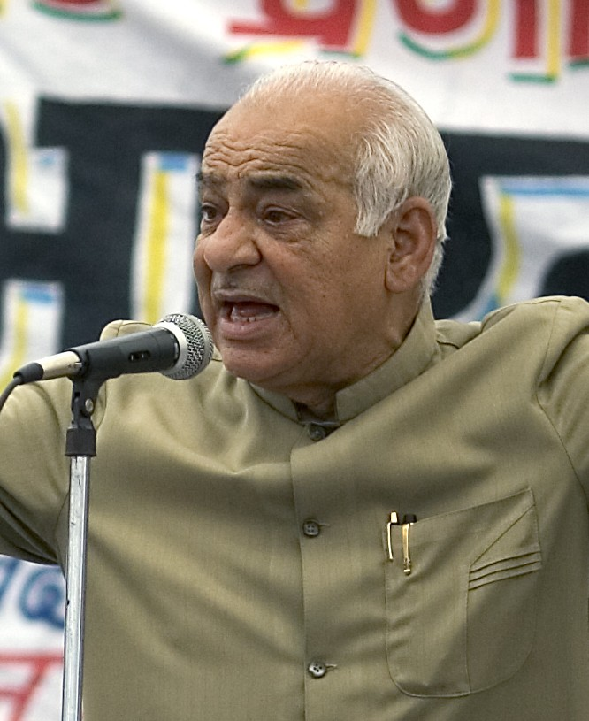 Politic rally Delhi India